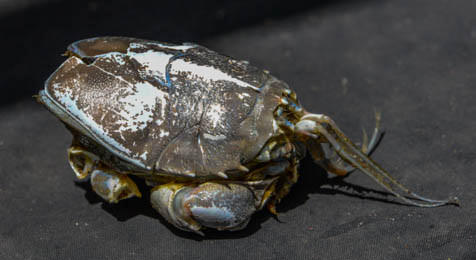 Blepharipoda occidentalis (Spiny Sandcrab) will fill up most of your hand. It eats other sand crabs.